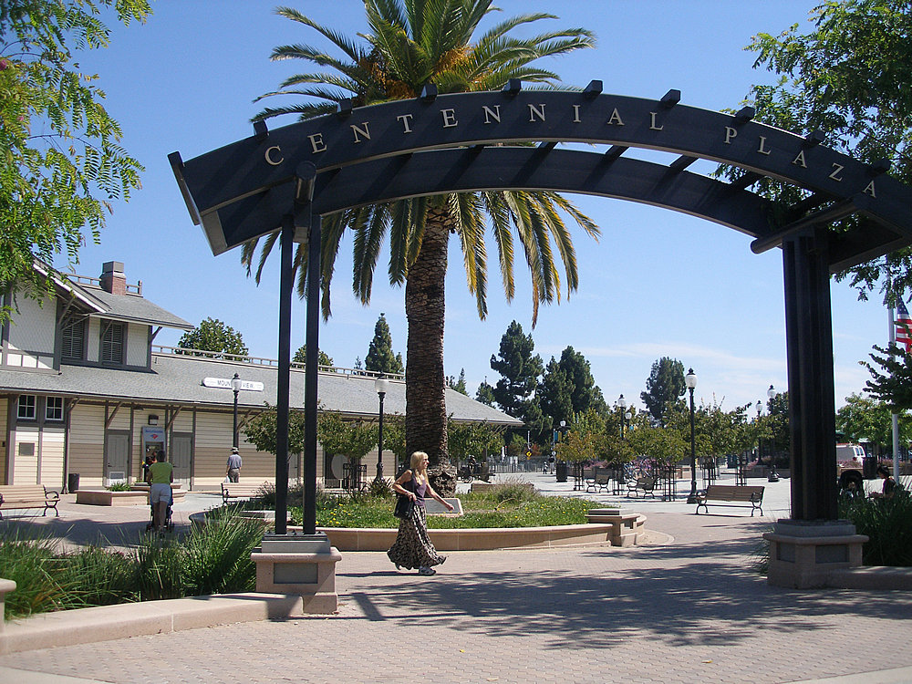 Centennial Plaza in Mountain View. The Caltrain station is visible in the background. Photographed on September 18, 2005 by user Coolcaesar.